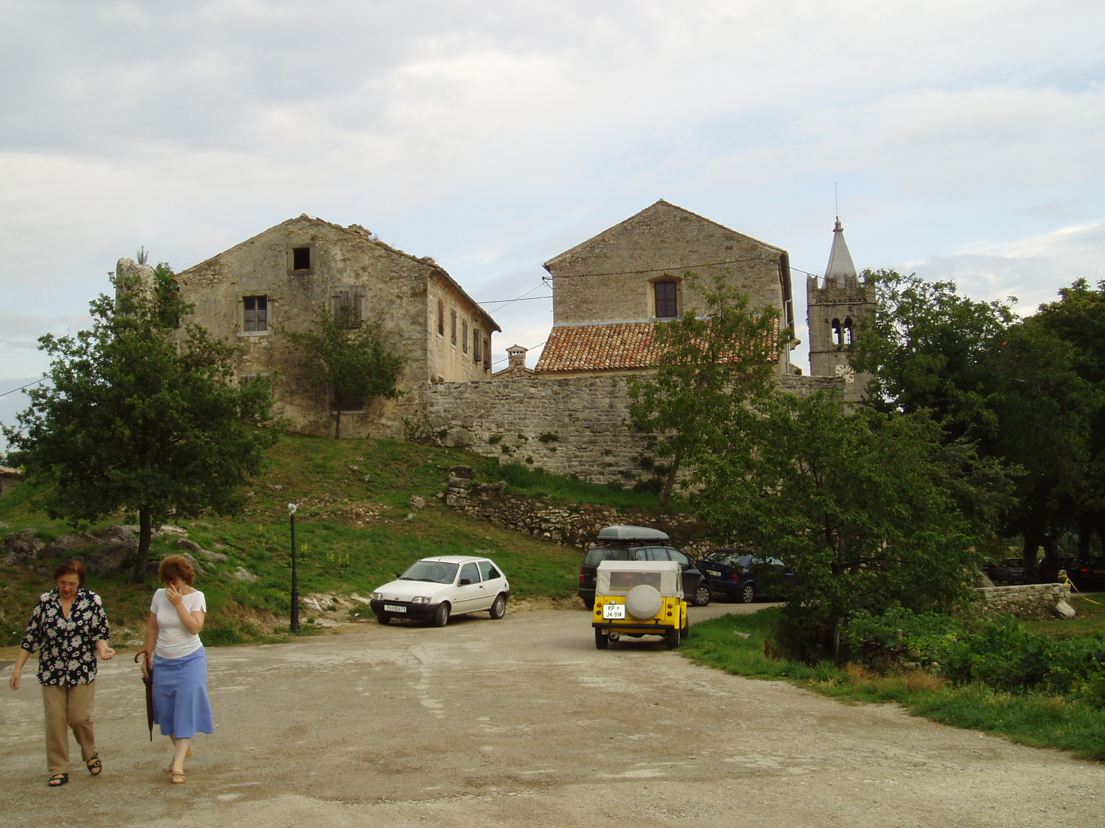 Hum (smallest town in the world)